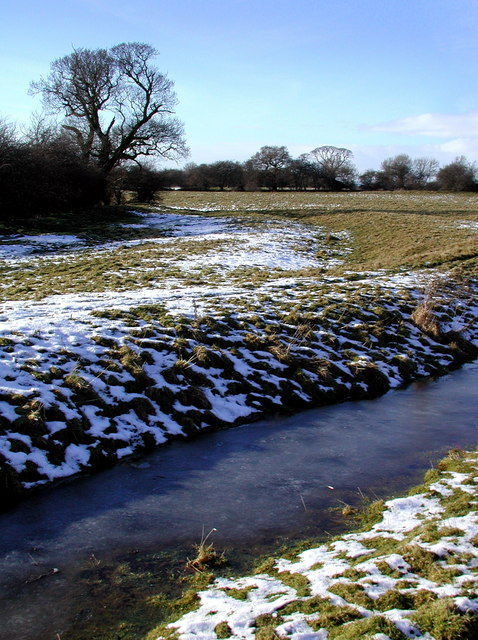 Meaux Abbey Earthworks, Meaux, East Riding of Yorkshire, England.Looking west-northwest across the southern end of the site from Meaux Road just north of Bridge Cottage. The Cistercian abbey of Meaux was founded in 1150 by William le Gros, Earl of Albermarle and Lord of Holderness, in lieu of a pilgrimage to the Holy Land. It was originally populated by a small band of monks from Fountains Abbey whose number had risen to sixty by 1249. In August 1349 the Black Death carried off twenty-two monks and six lay brethren and by the time it subsided there were only ten survivors from the congregation. The abbey was surrendered during the Dissolution on 11 December 1539 when it had a total net value of a little under £300. More information on Meaux Abbey can be found at British History Online.